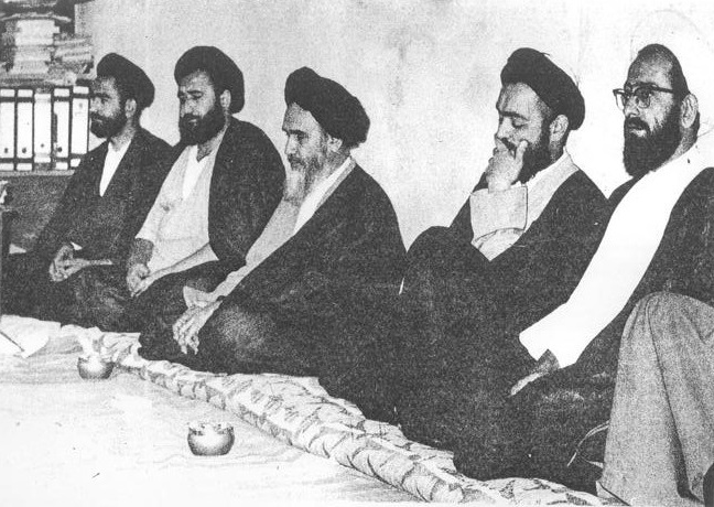 صورة للشيخ الطهراني (أقصى اليمين) مع الإمام الخميني وابنه.